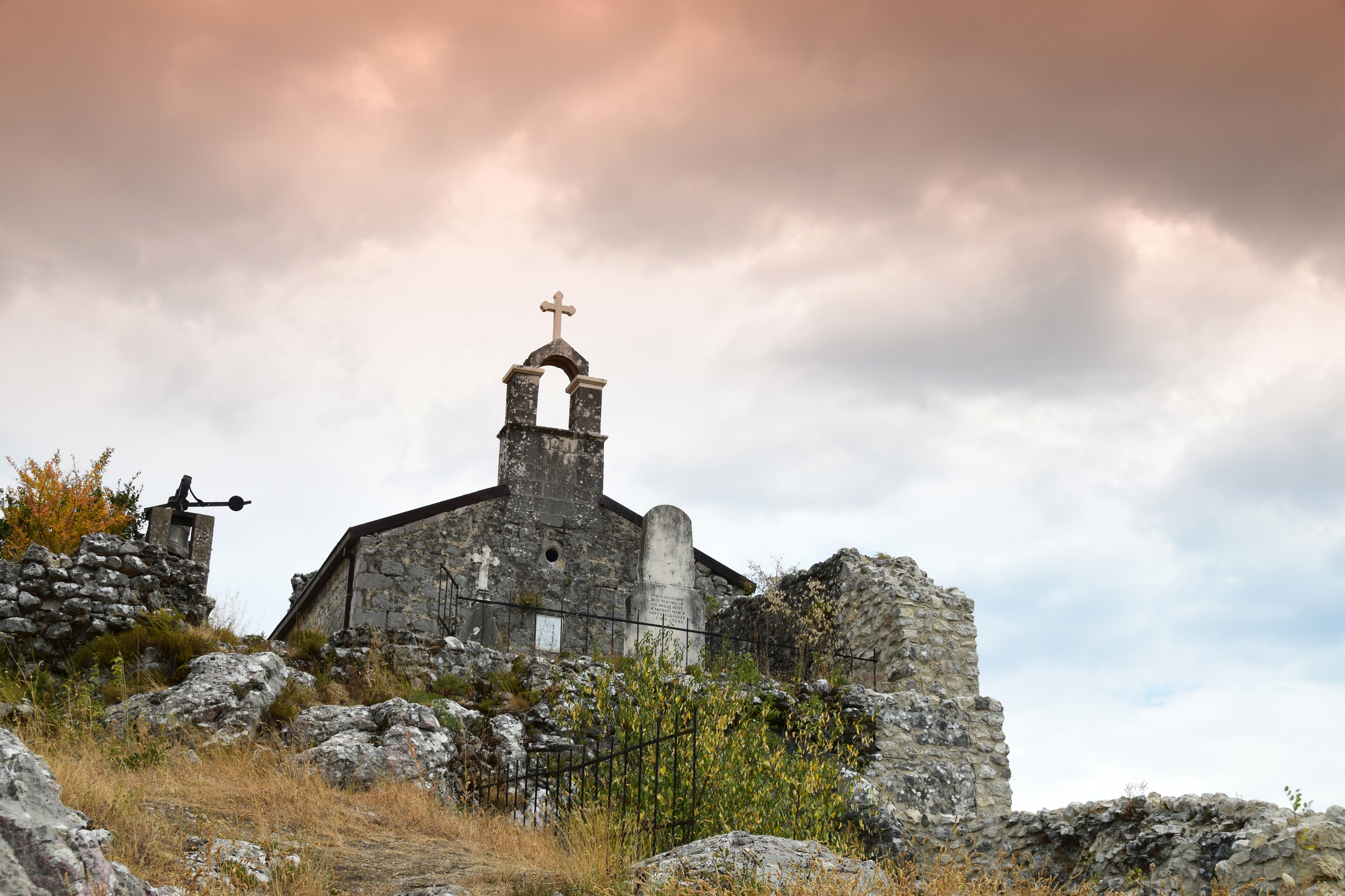 Grove Mark Miljanova, Meteon, Montenegro